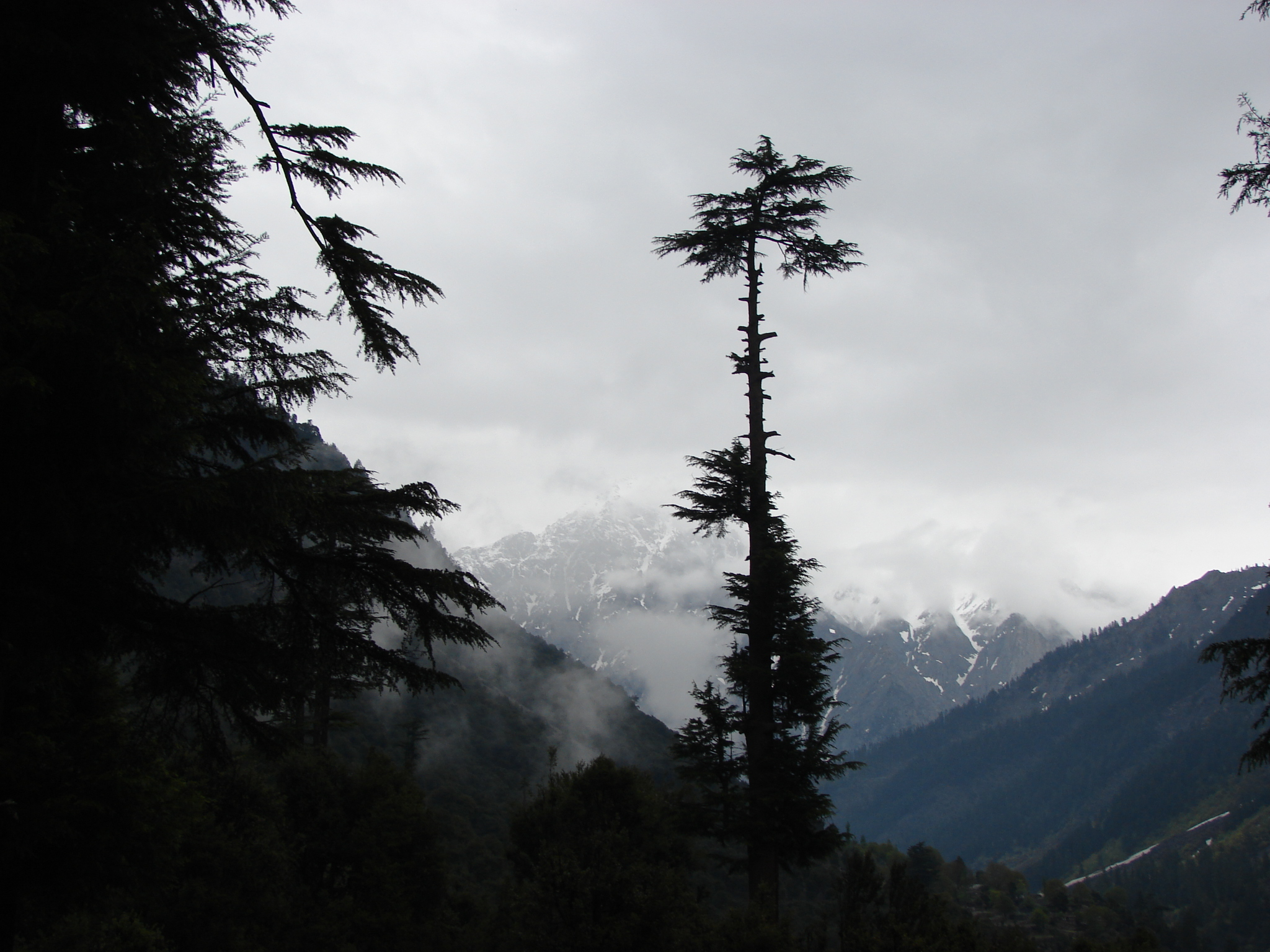 Usho, Swat Valley, Pakistan